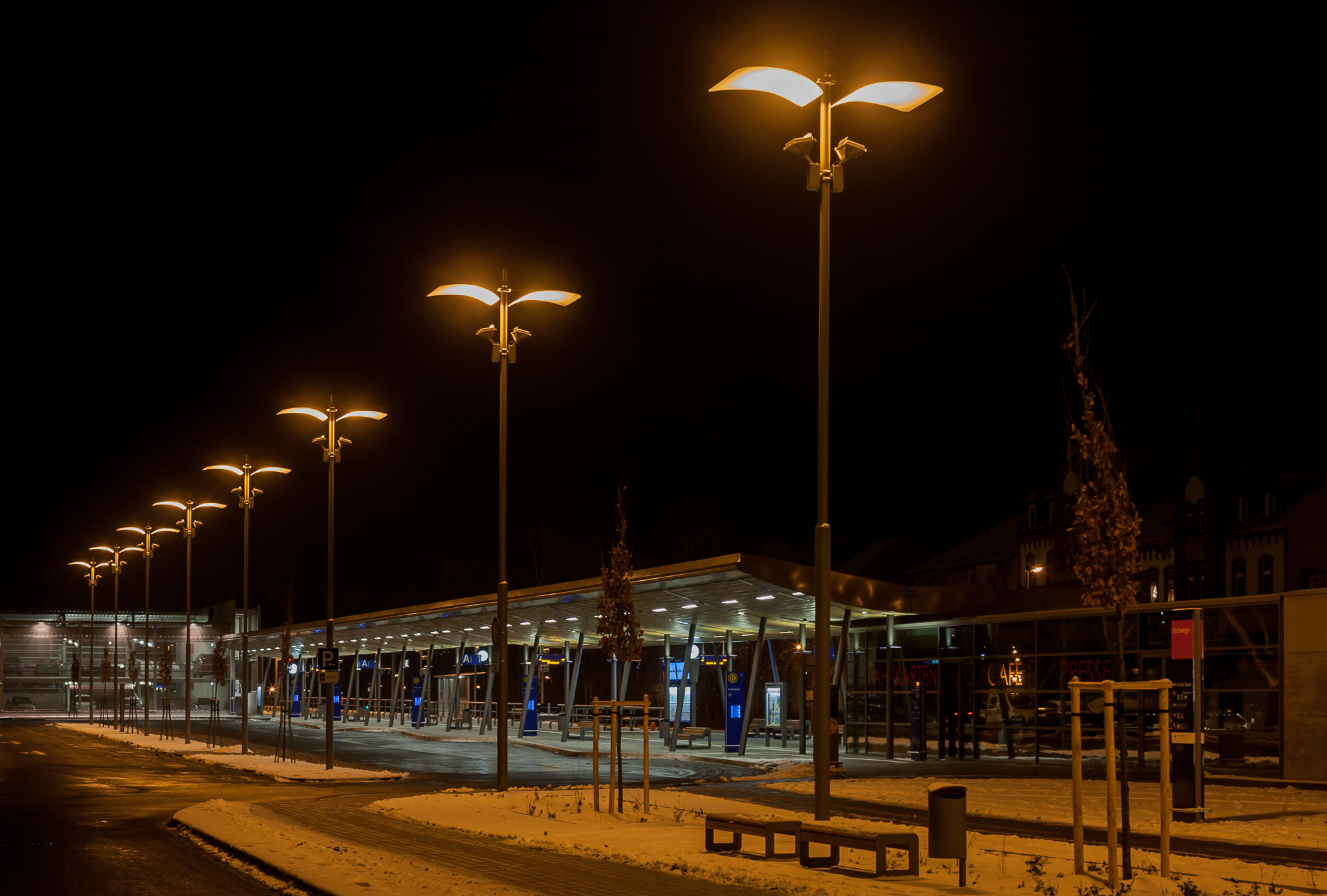 Eschwege - Train station of the city at night